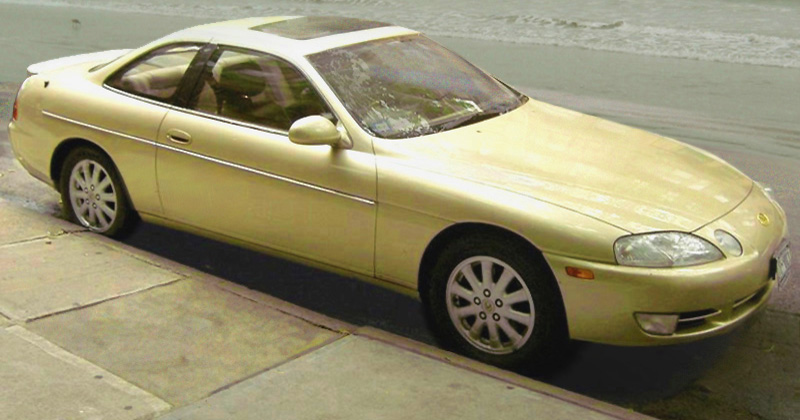 Lexus SC300, photographed in New York City, U.S.A. Modified version of original photo for contrast and cropping